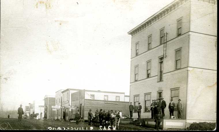 Database ID 34064 Institution University of Saskatchewan Libraries Special Collections Fonds/Collection Canadiana Pamphlets Collection File/Item Reference 70. Postcard Views of Early Saskatchewan, 70_70-96 Scope and content A monotone postcard showing Preeceville, Saskatchewan. Physical description/extent 1 postcard; 9 x 13.5 cm Date produced [19--?] Date Range(s) 1900-1909 Copyright holder Public domain